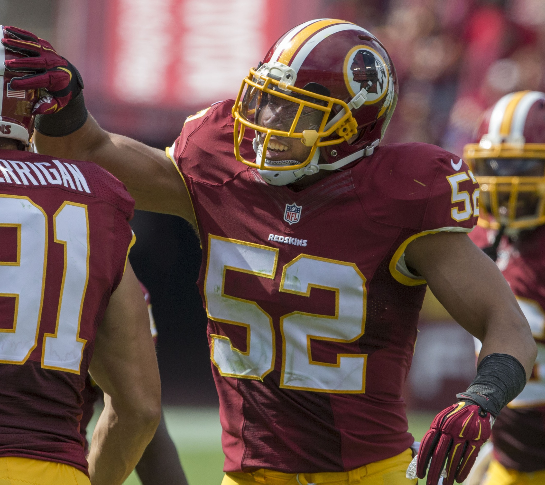 Washington Redskins linebacker, Keenan Robinson, in 2014.